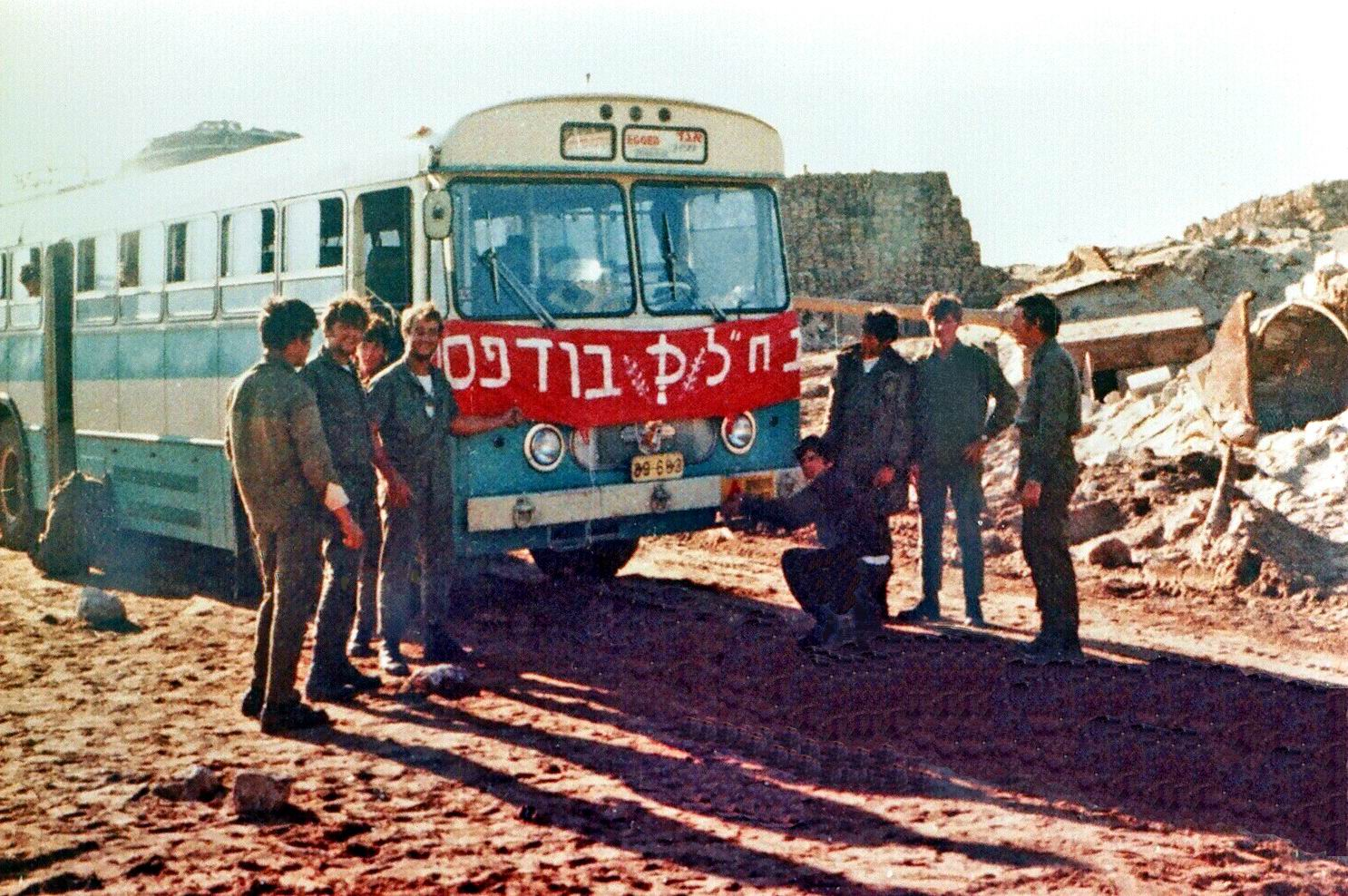 Israel Defense Forces